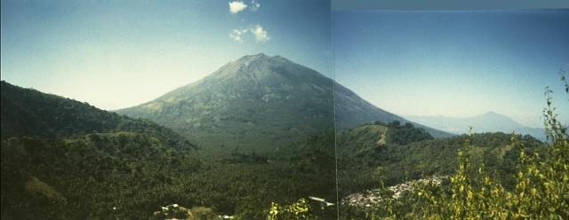 Iliboleng volcano at the SE end of Adonara Island, east of Flores Island, is a symmetrical stratovolcano with many partially overlapping summit craters. Iliboleng is seen here from Bukit Tomu, north of the volcano. Explosive eruptions from the summit crater have been recorded since 1885. Only one historical eruption, in 1888, produced a lava flow.